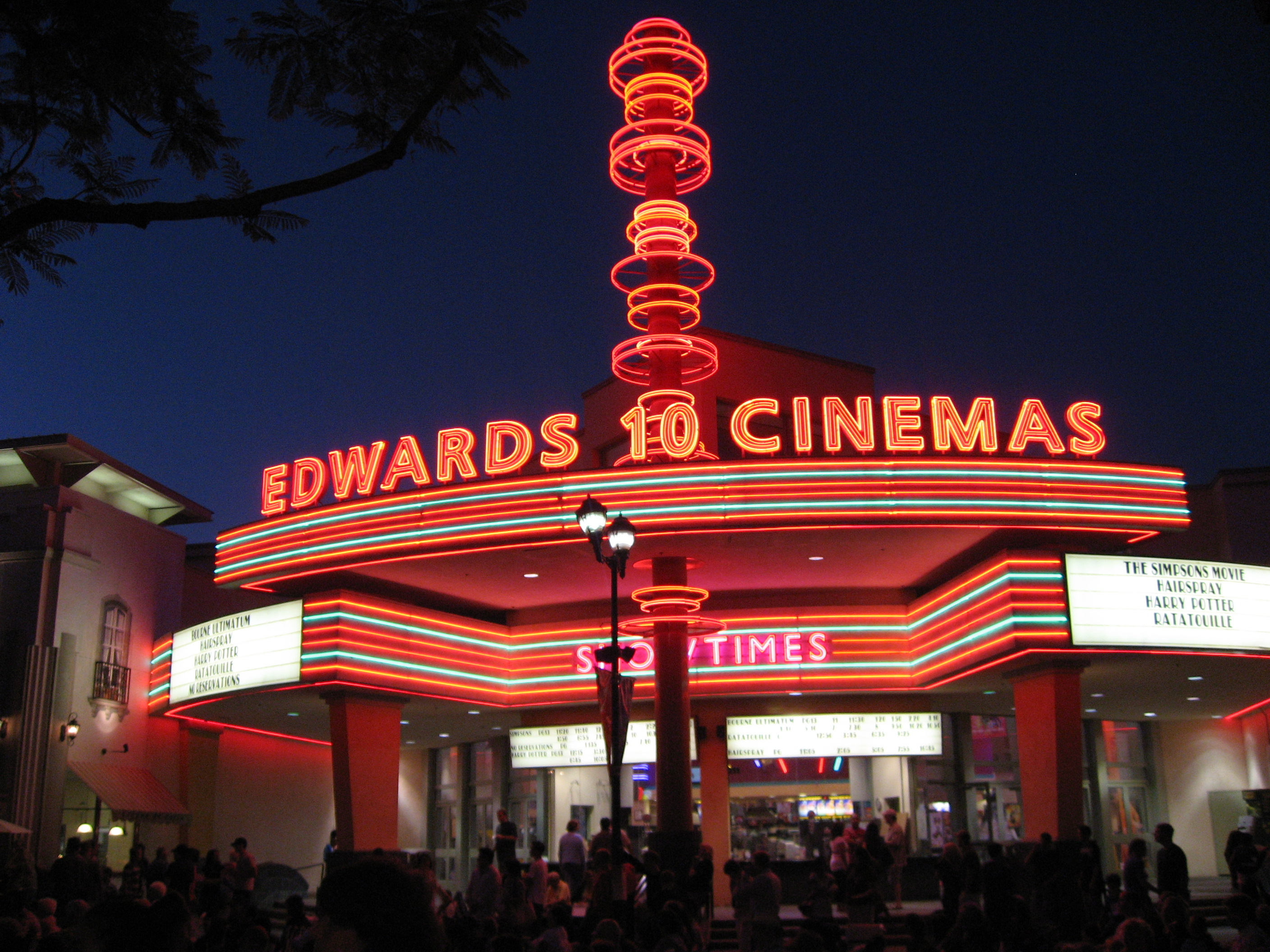 Edwards Cinema in downtown Brea, CA at night.